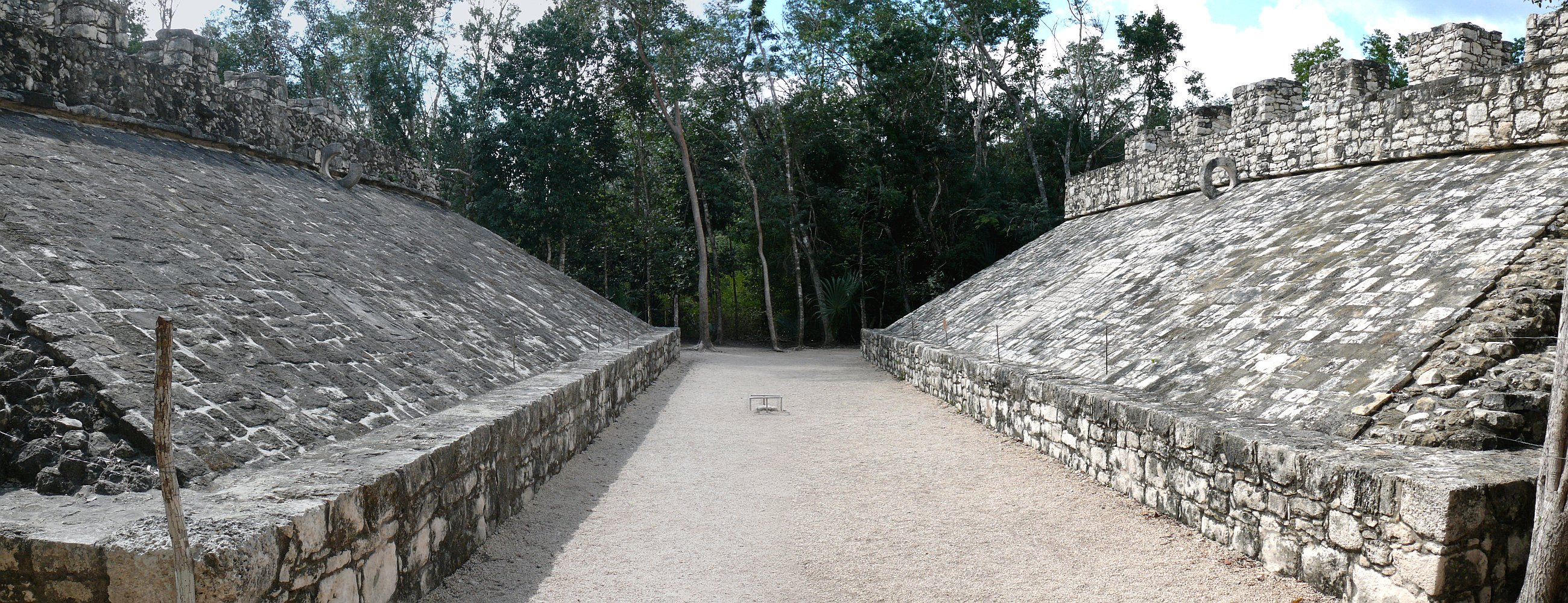 This ballcourt is part of the ruins at the Cobá archeological site, and was used for playing a game that had significant religious and political implications for the Mayan people. Photo taken with a Panasonic Lumix DMC-FZ50 in Quintana Roo, Mexico.